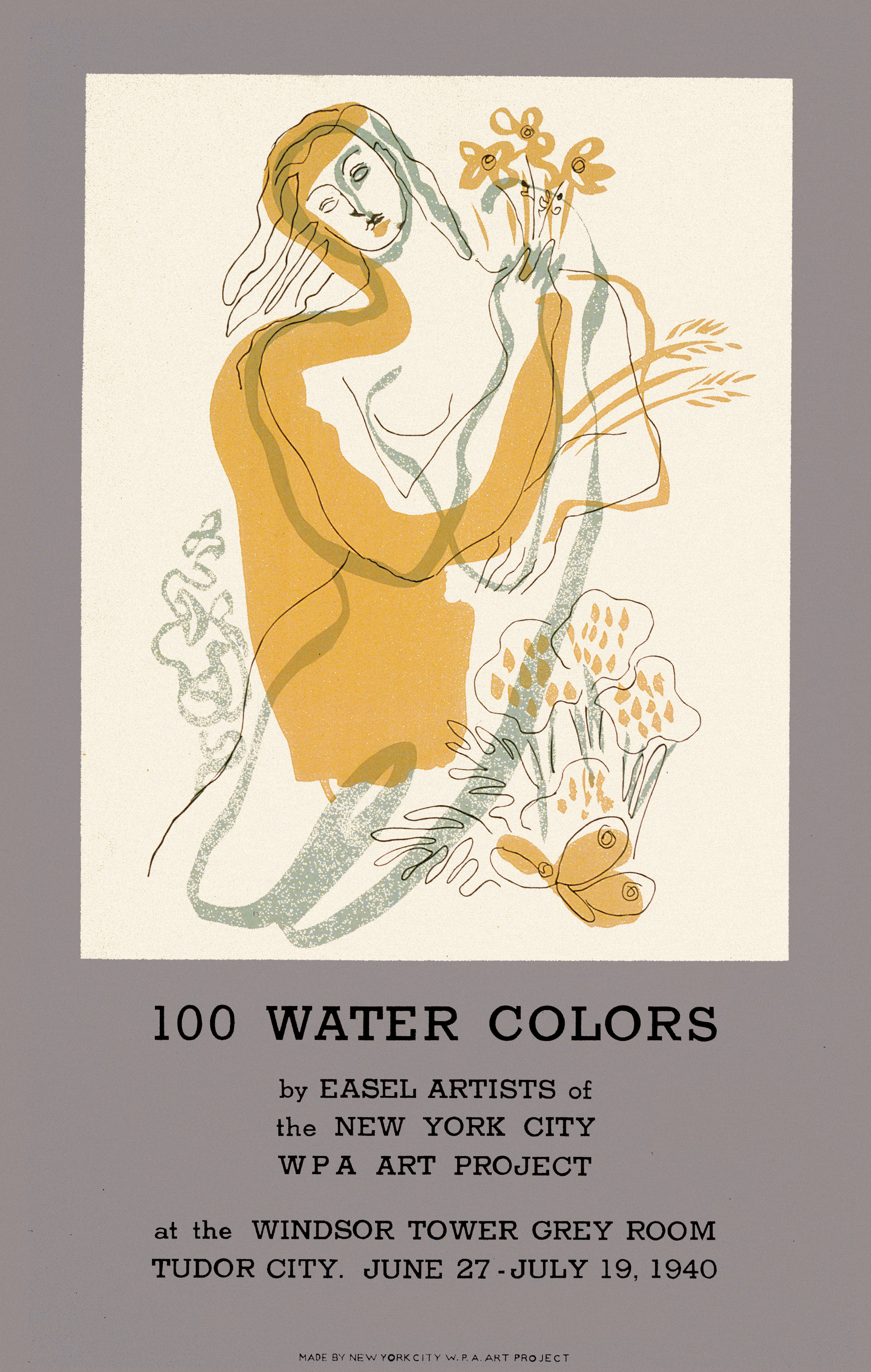 100 Water Colors show, WPA Art Project poster 1940